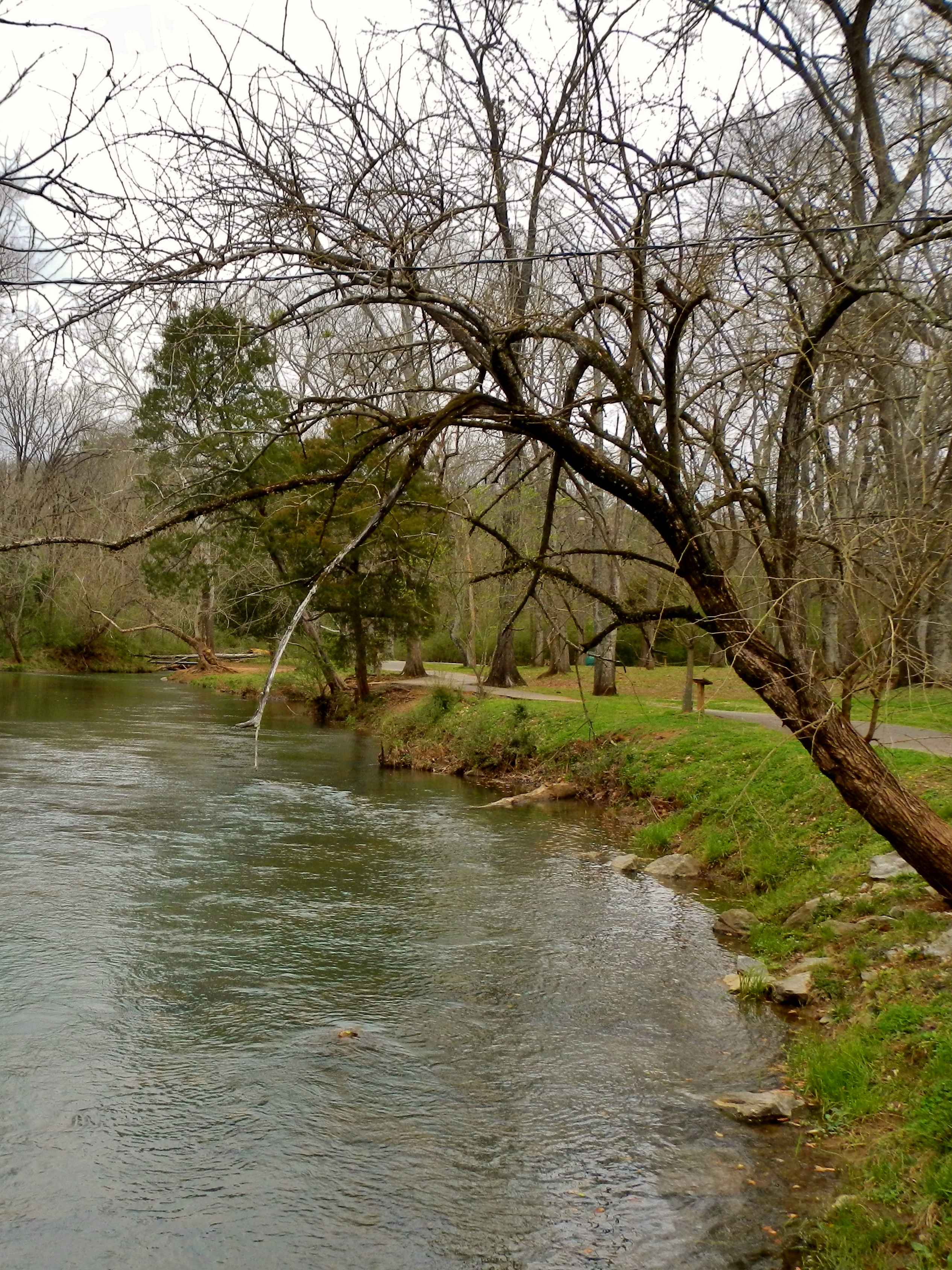 This is a picture of Shoal Creek in Orr Park in Montevallo, Alabama.